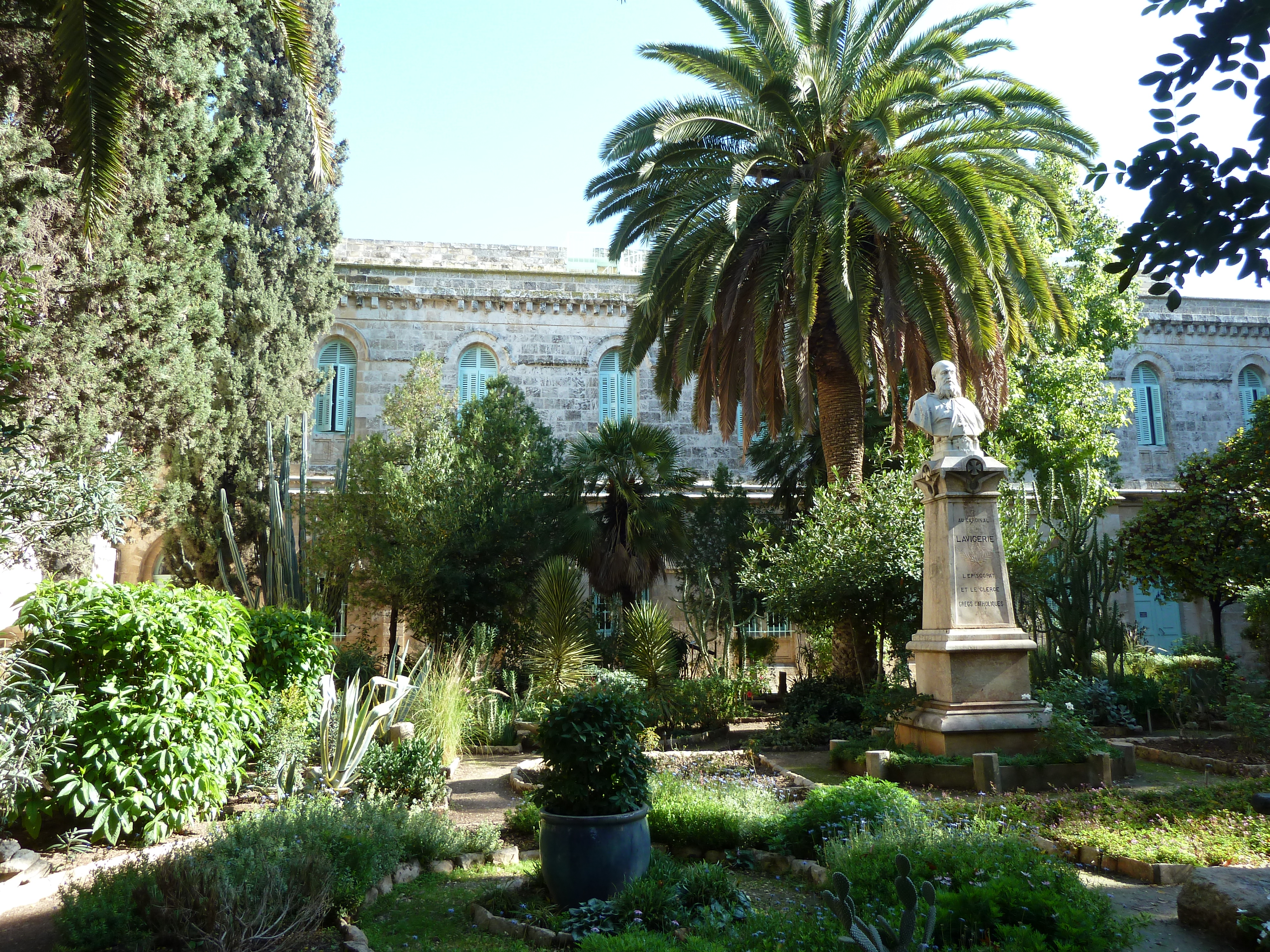 Old Jerusalem Church of St Anne garden with bust of Charles Lavigerie